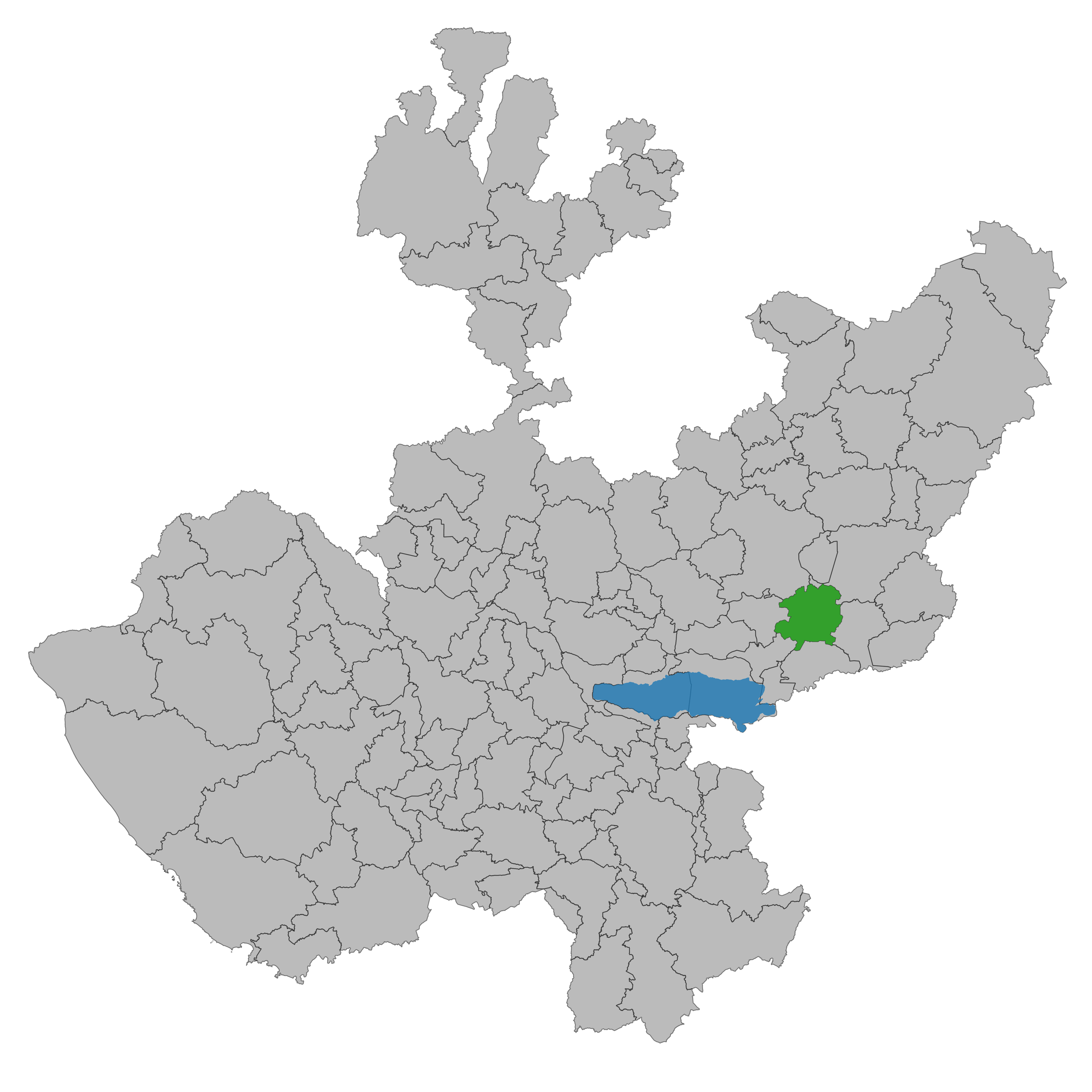 Municipality of Jalisco. Prepared with the software QGIS version 2.8.2 Wien & with information of SCINCE 2010 version 05/2013